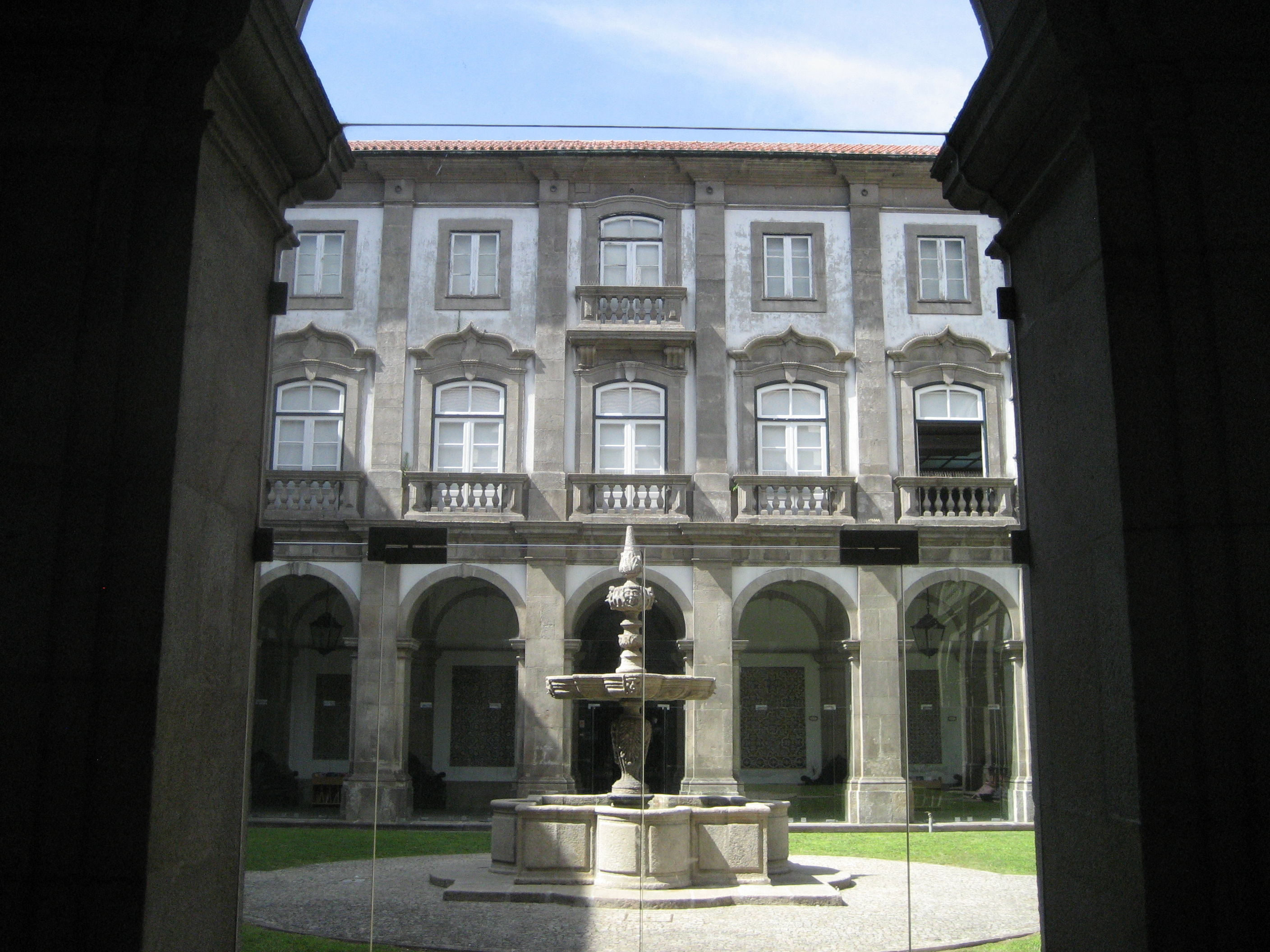 Interior of Porto Public Library (Portugal)